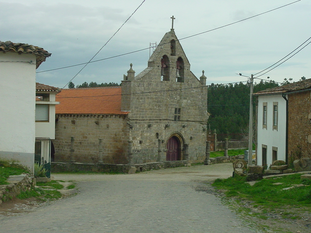 Main church in Azinhoso. (photographed by Fernando A. G. Pereira)